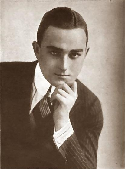 Silent Film Actor William Courtliegh, Jr.